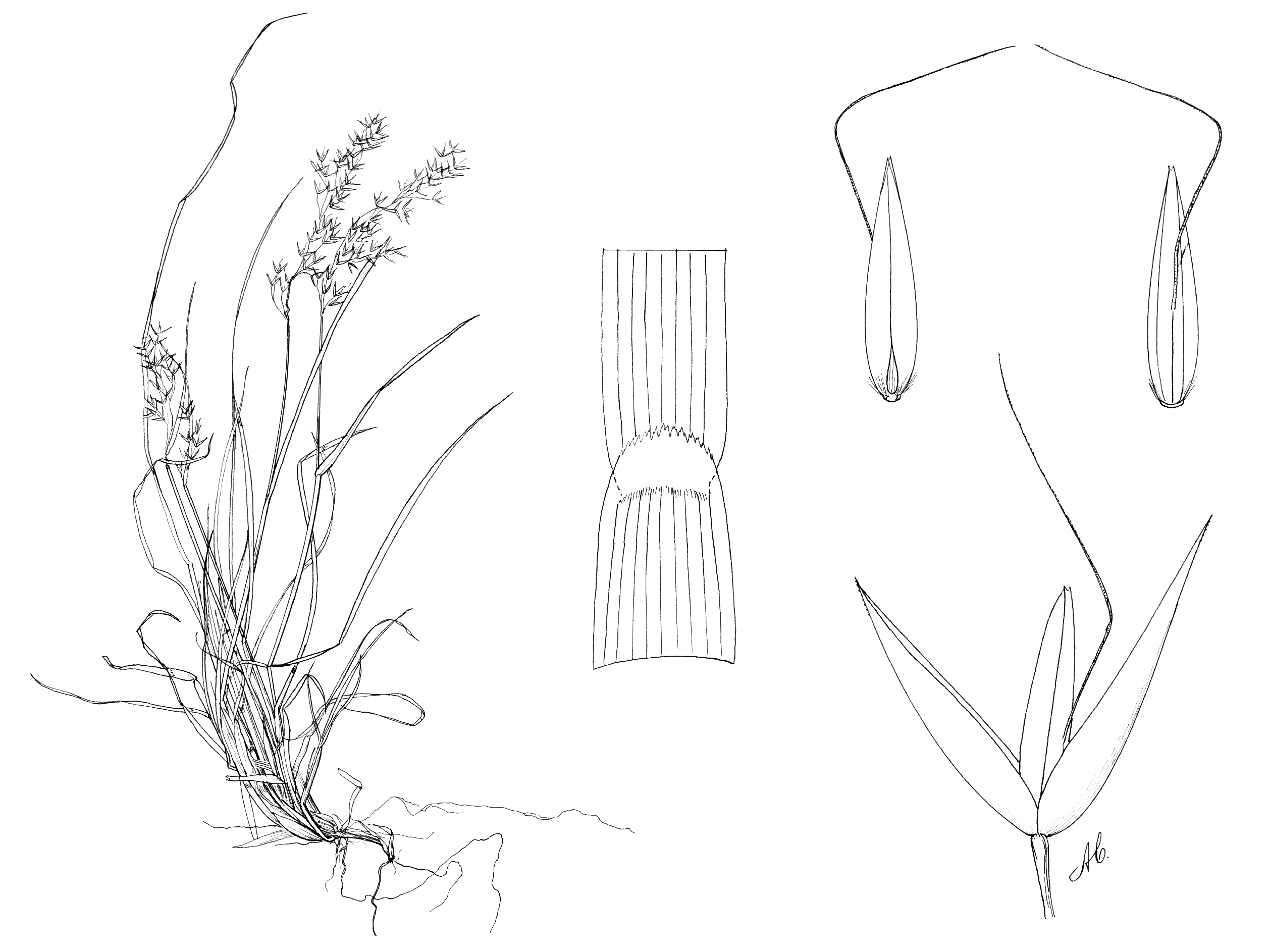 Agrostis mertensii Trin. - northern bentgrass